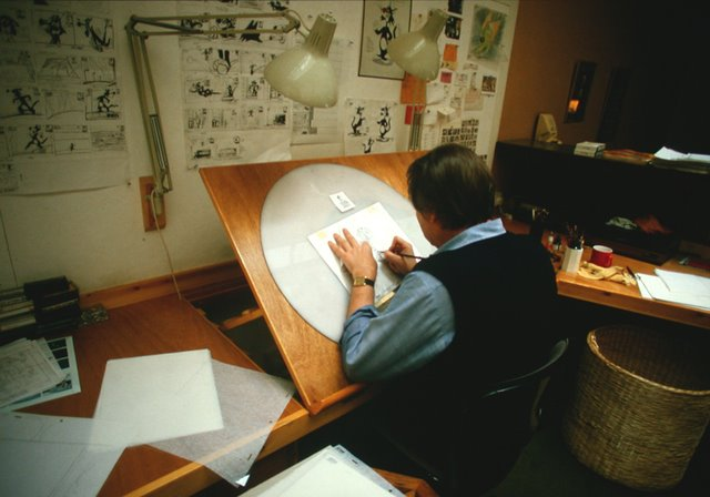 Williams